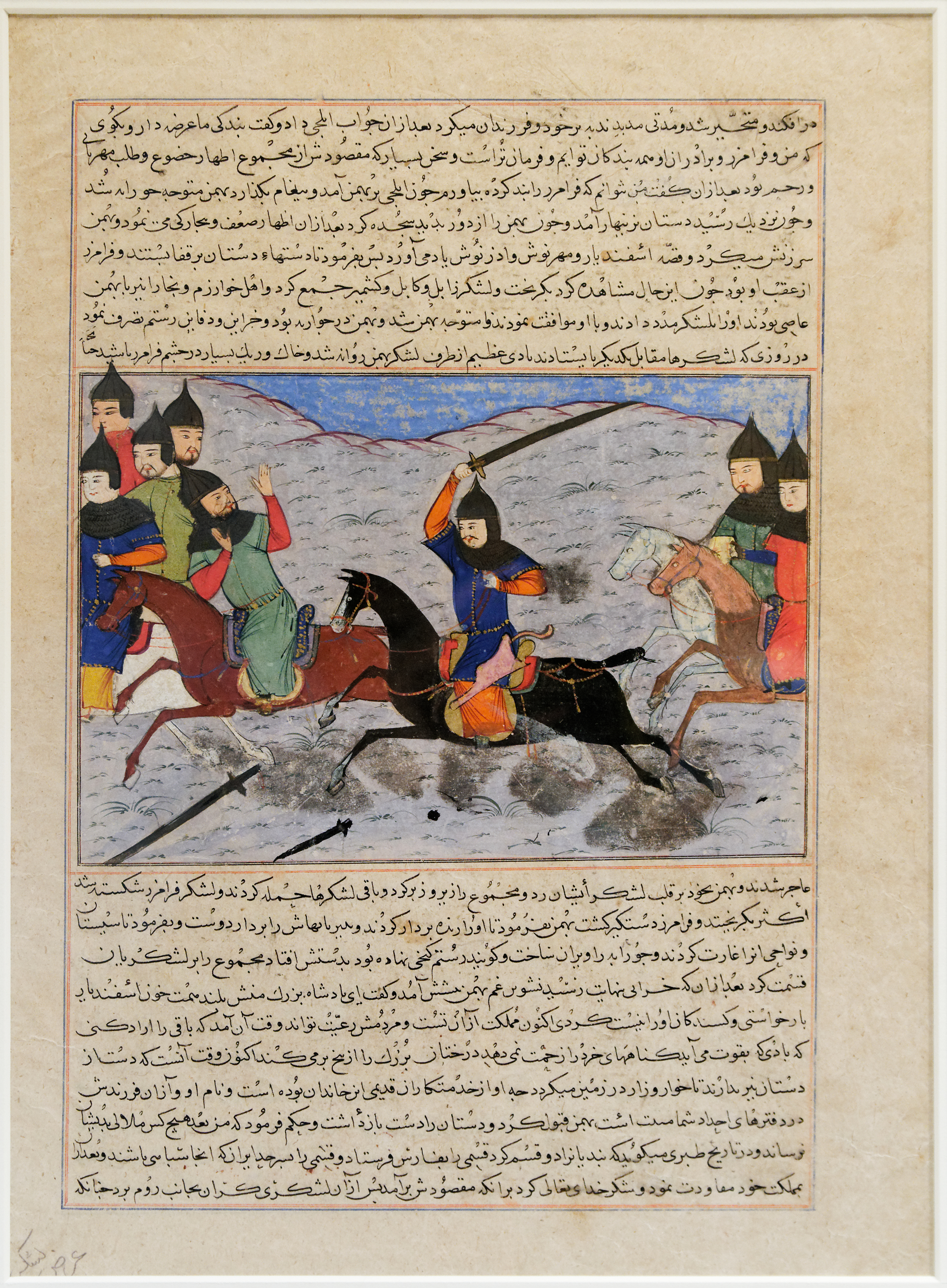 Bahman taking revenge on the Sistanians, folio from the Majma al-Tavarikh (The Collection of histories and tales) by Hafiz-i Abru.